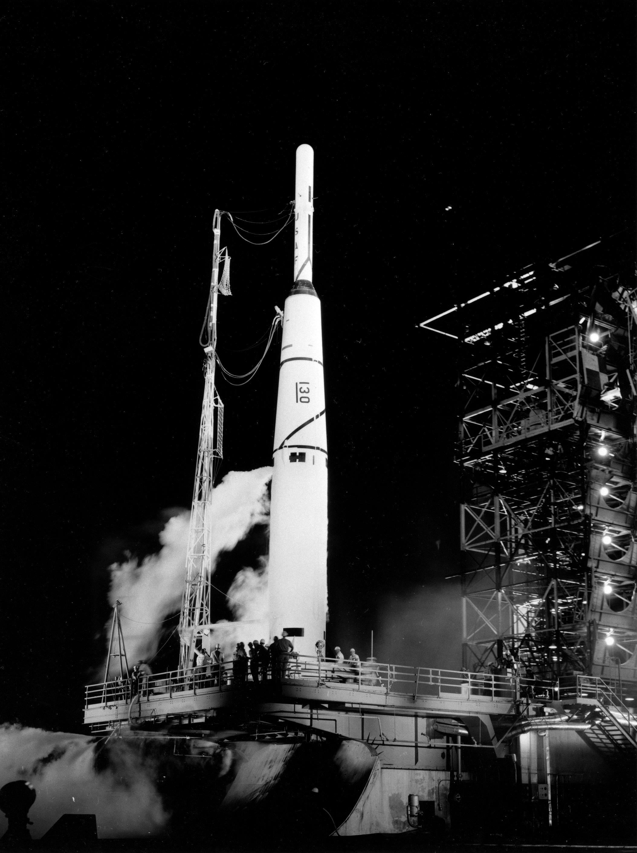 Thor-Able I with the Pioneer I spacecraft atop, prior to launch at Eastern Test Range at what is now Kennedy Space Center. Pioneer I launched on October 11, 1958, the first spacecraft launched by the 11 day old National Aeronautics and Space Administration. Although it failed to reach the Moon it did transmit 43 hours of data.